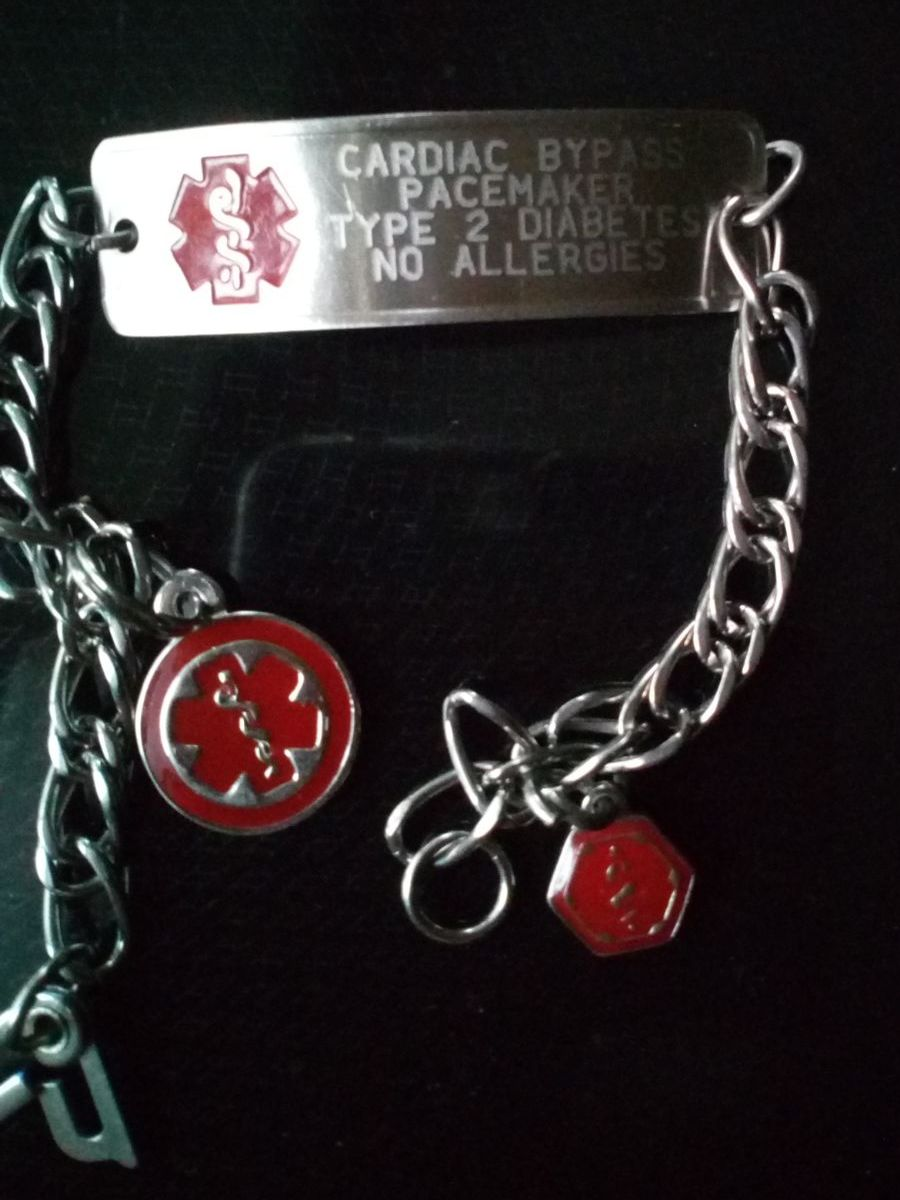 A medical alert bracelet, engraved: CARDIAC BYPASS PACEMAKER TYPE 2 DIABETES NO ALLERGIES